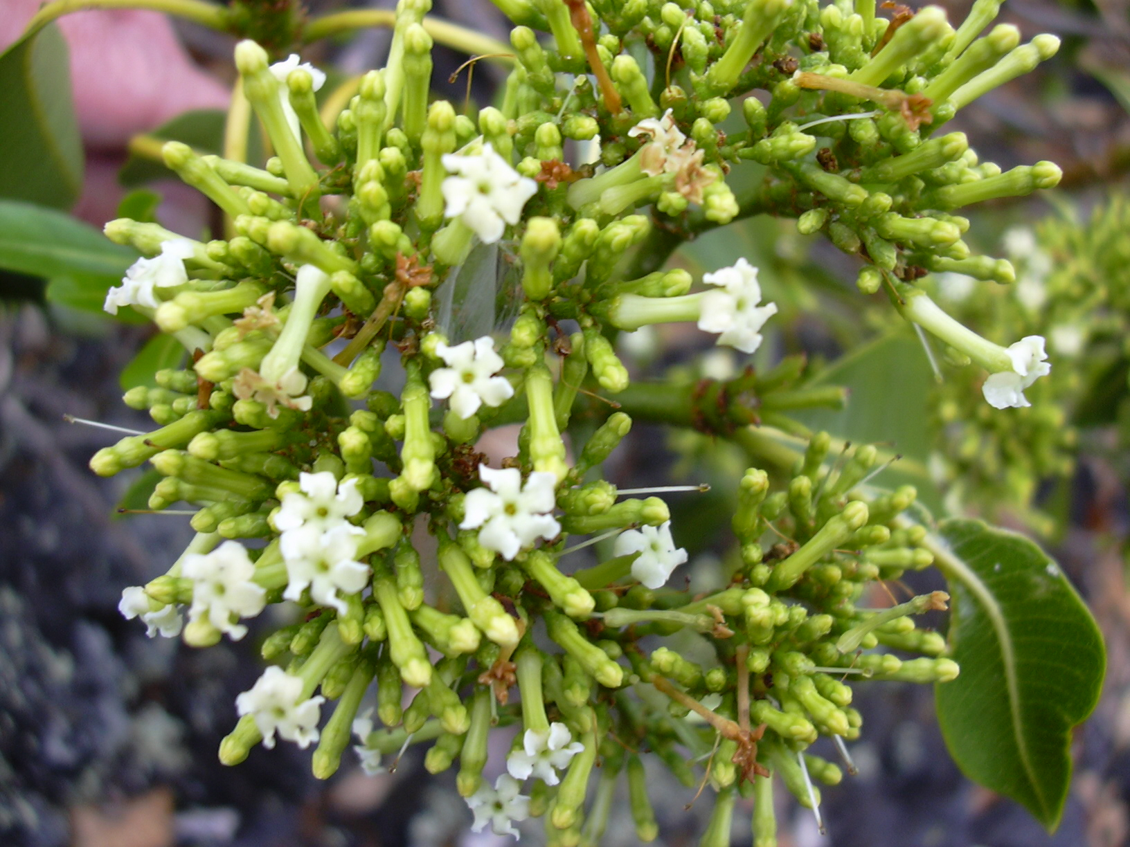 Rauvolfia sandwicensis (flowers). Location: Maui, Kanaio